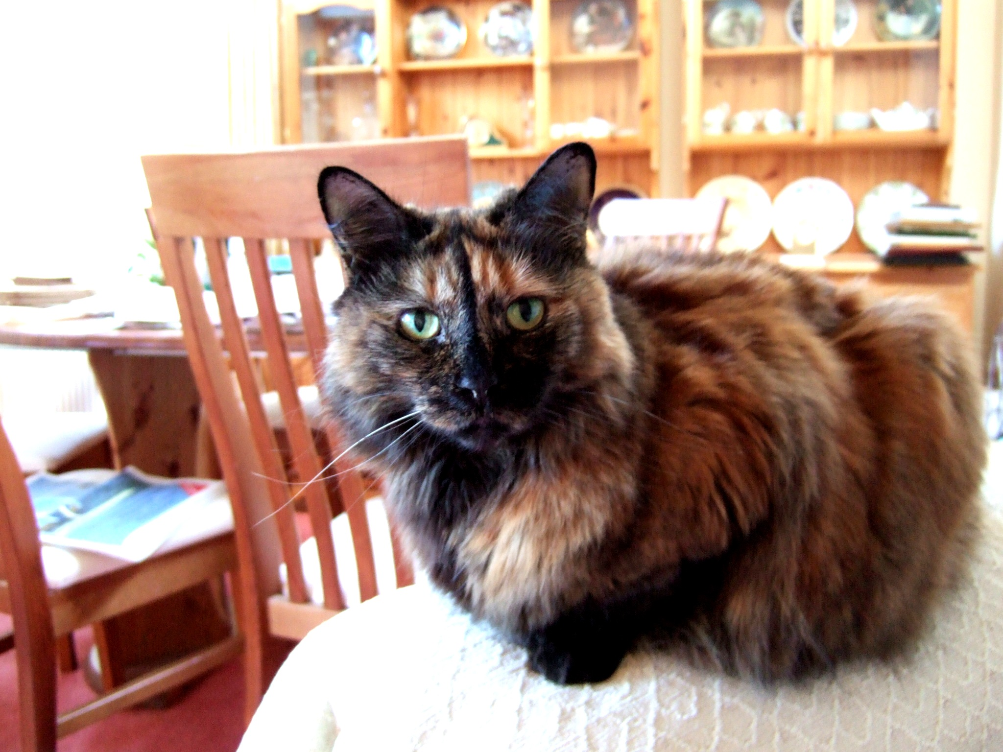 Long-haired tortoiseshell cat, Clio, 11years old